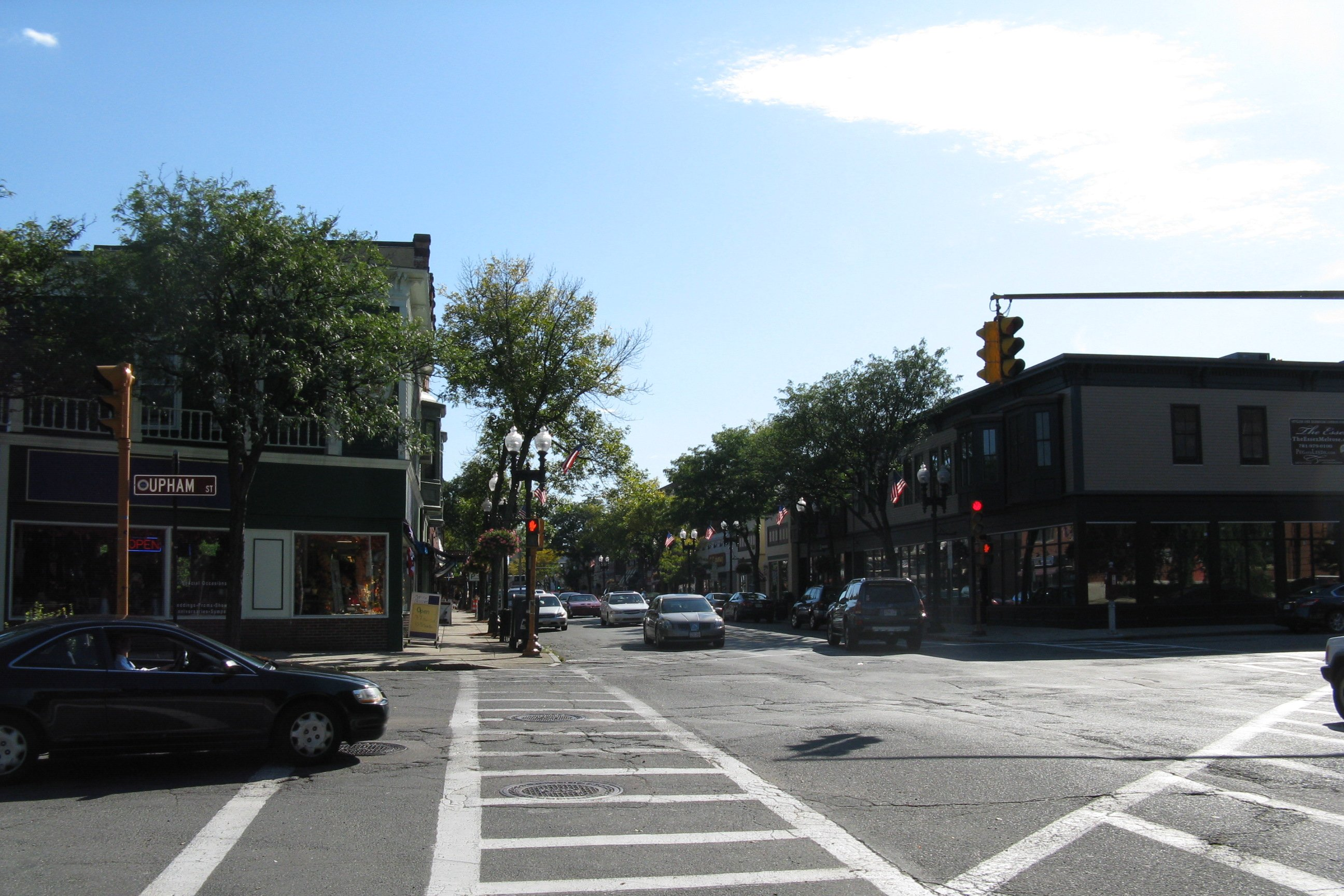 Main Street, Melrose Massachusetts